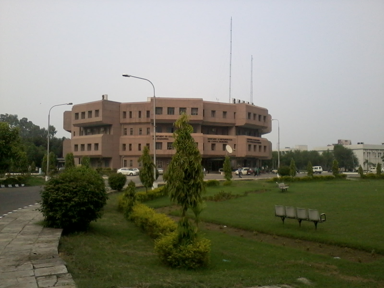 Main Building, NIT Jalandhar